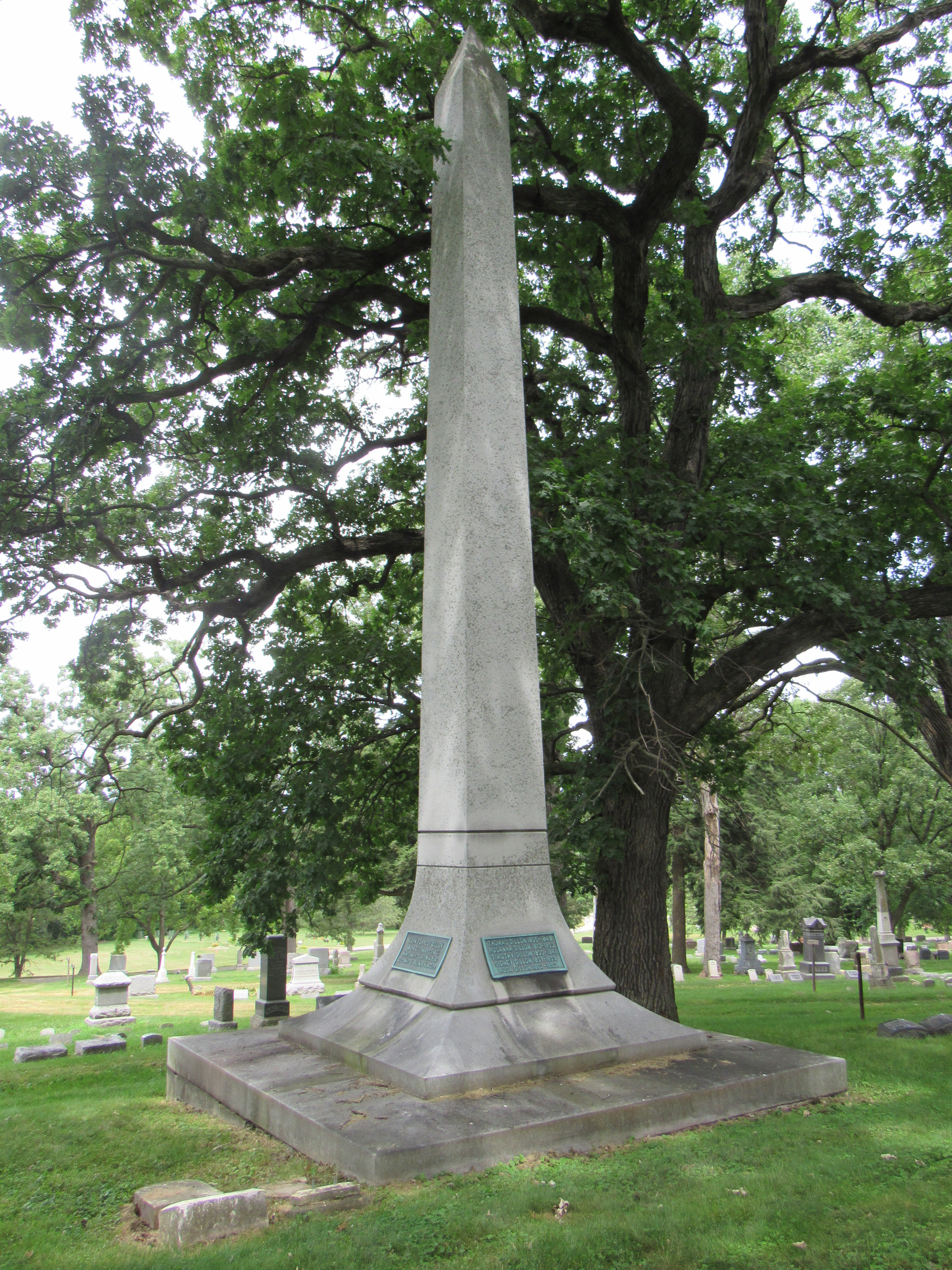 The Dillon family monument in Oakdale Memorial Gardens, Davenport, Iowa. The monument was erected by Judge John Forrest Dillon in memory of his wife, Anna Price Dillon, and daughter, Annie Dillon Oliver, who were lost when the French ocean liner SS La Bourgogne sank after colliding with the British sailing ship Cromartyshire in dense fog off Sable Island in the North Atlantic in 1898.